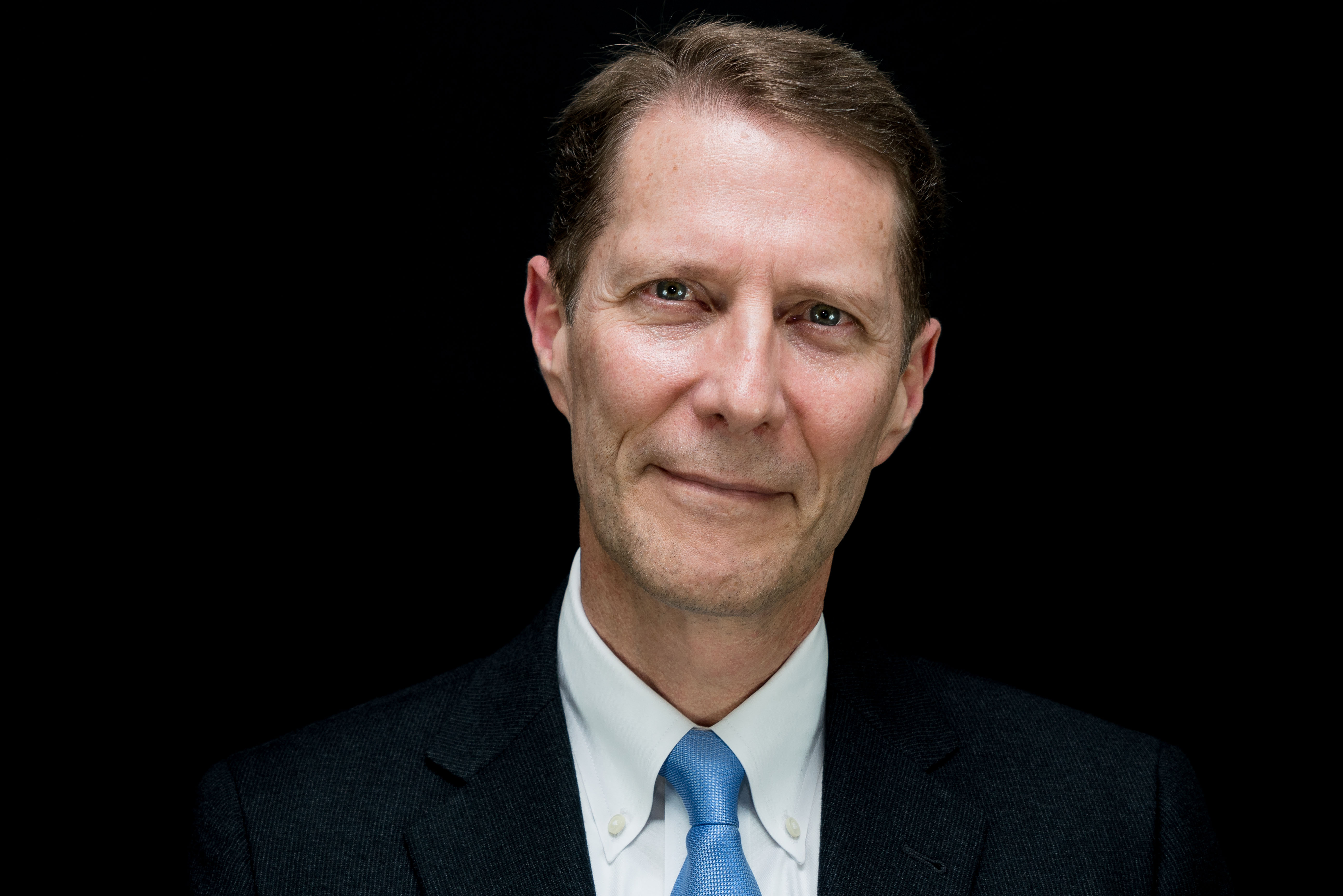 Photo of Christopher Emery in August 2017.